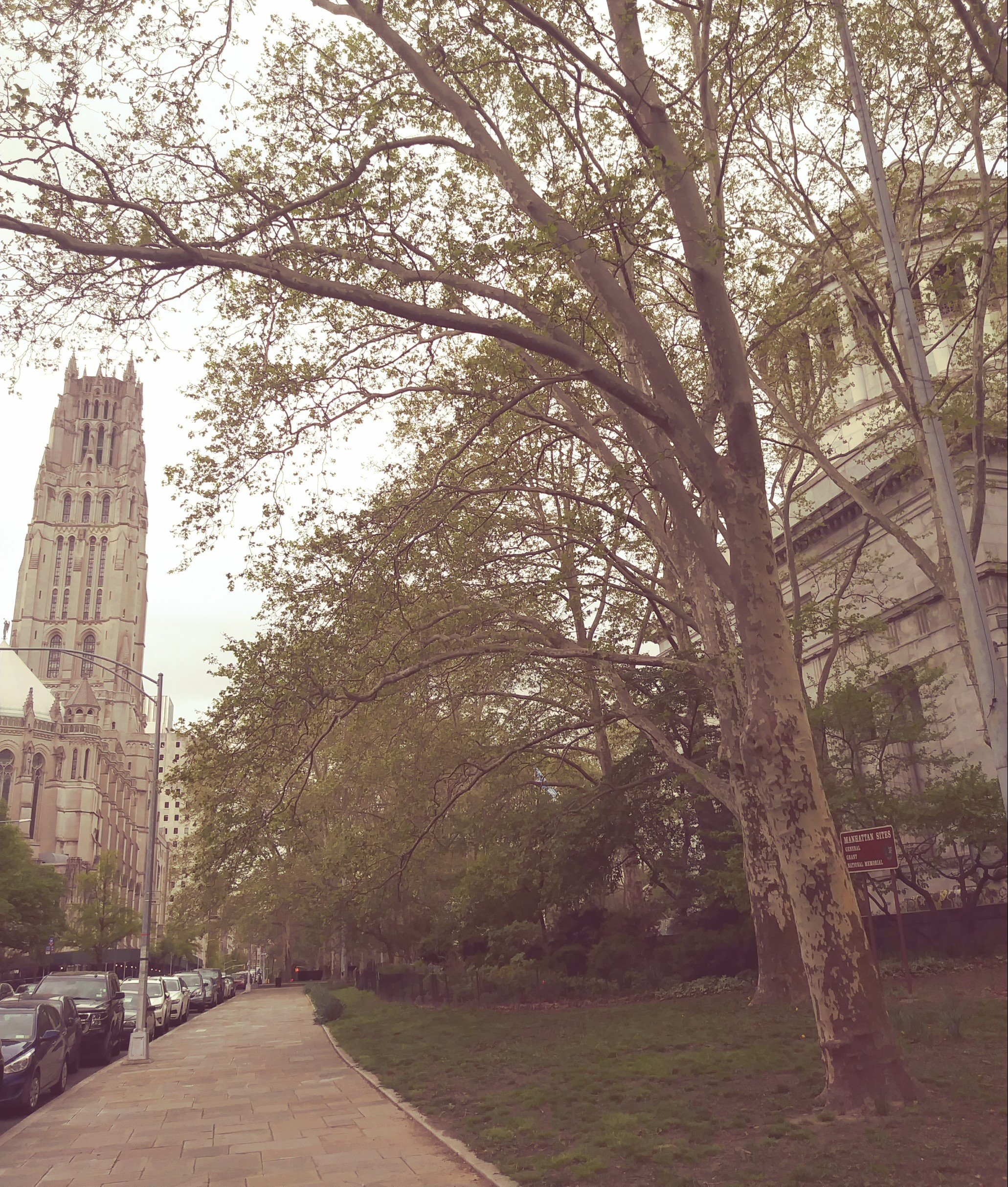 Riverside Church (left) and Grant's Tomb (right) on opposite sides of Riverside Drive in New York City, view looking south from Riverside Park May 6 2019